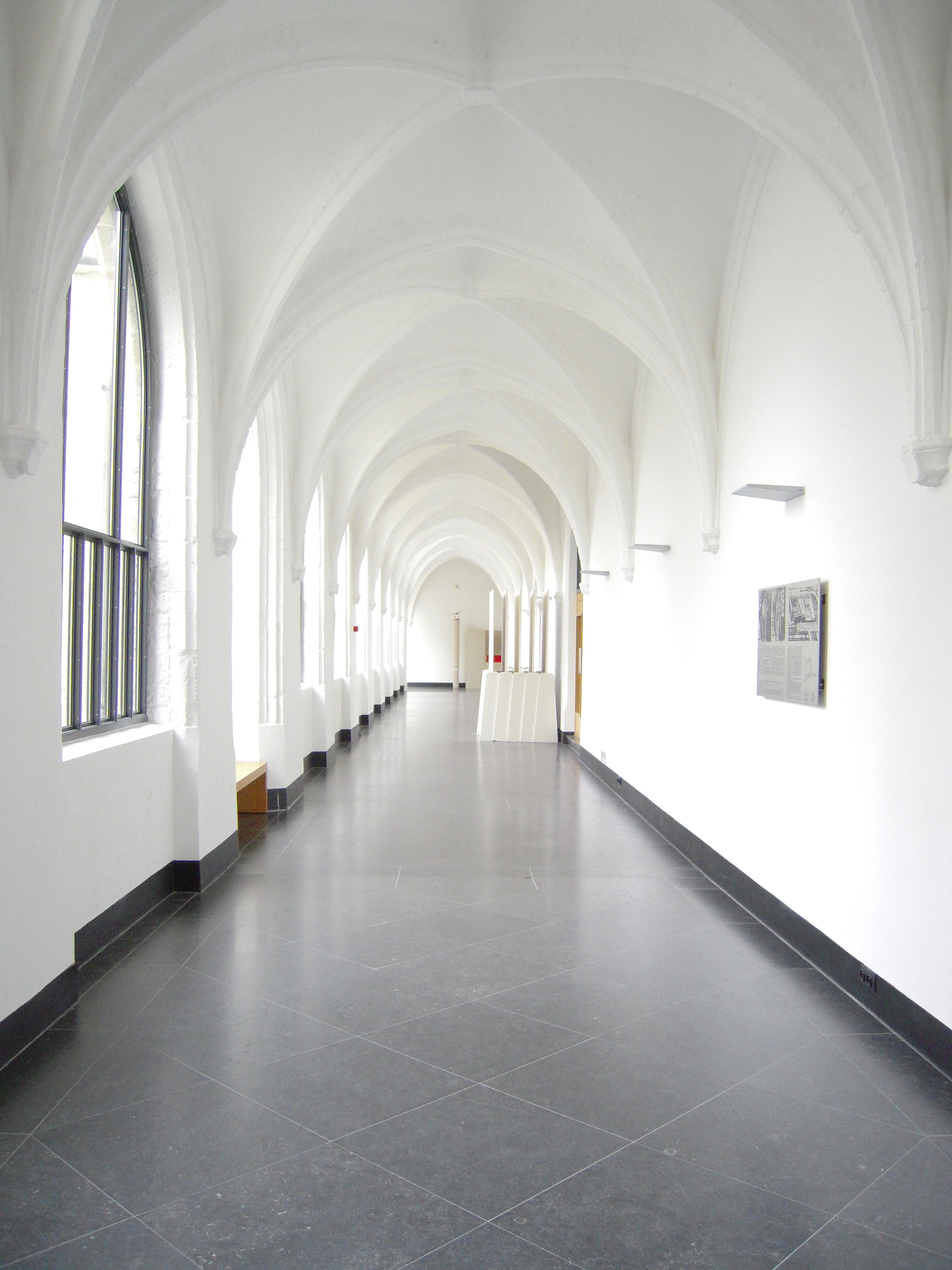 Arenberg Library KU Leuven, Heverlee, Belgium